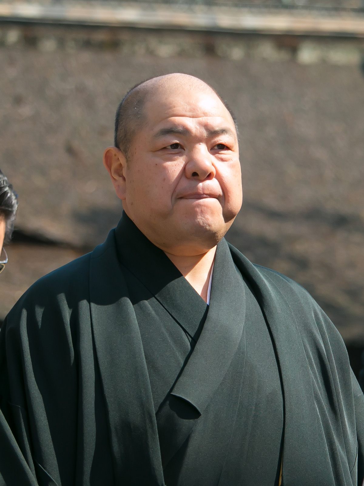 Hokutoumi Nobuyoshi (the chairman of the Japan Sumo Association and head coach of Hakkaku stable) in Sumiyoshi taisha.